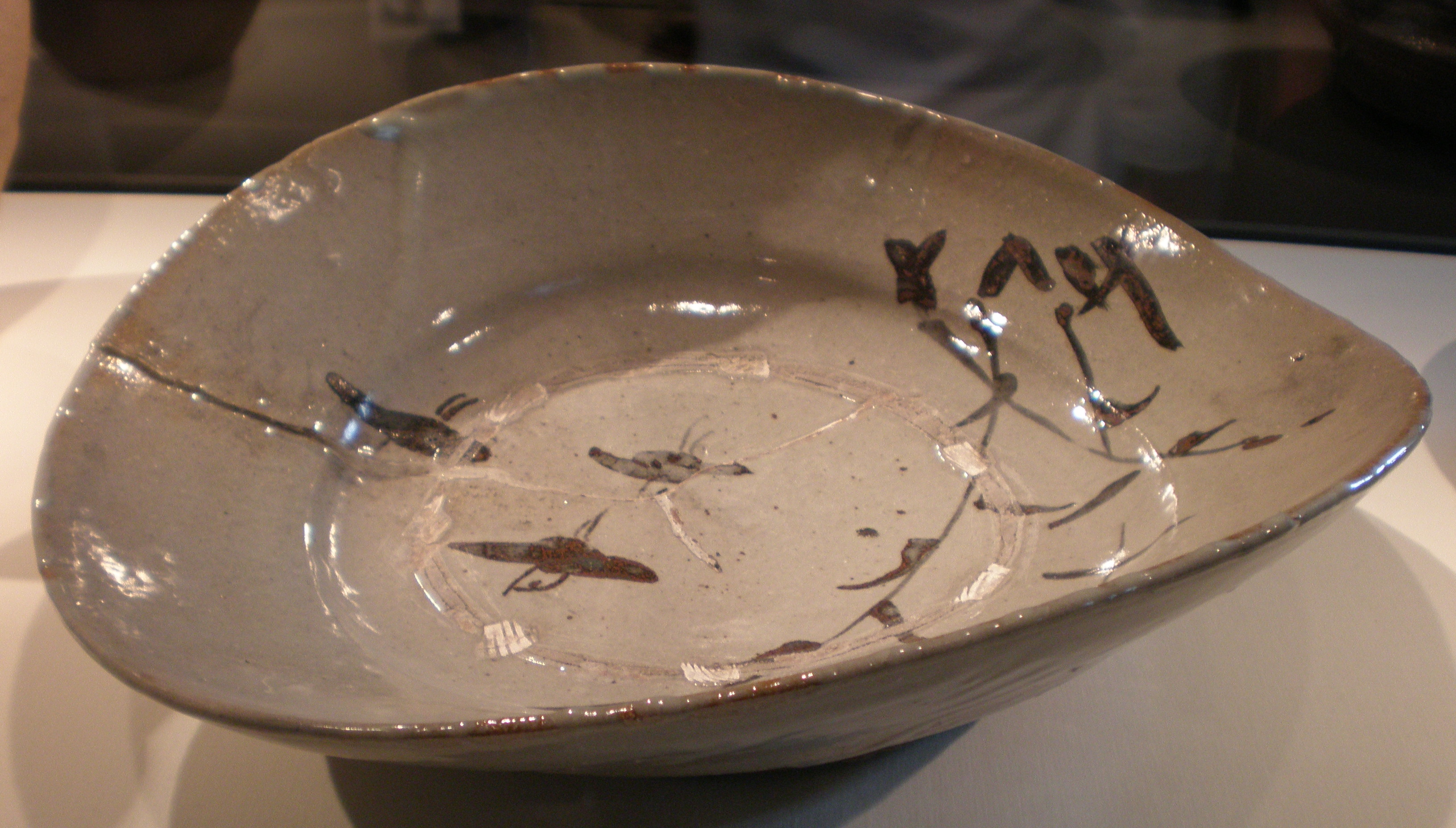 A large bowl with a millet and sparrow design, approx. 1573-1615 from the Karatsu region, Saga prefecture, Japan. E-Garatsu ware, stoneware with glaze iron-oxide decoration. On display at the Asian Art Museum in San Francisco, California. B84P1